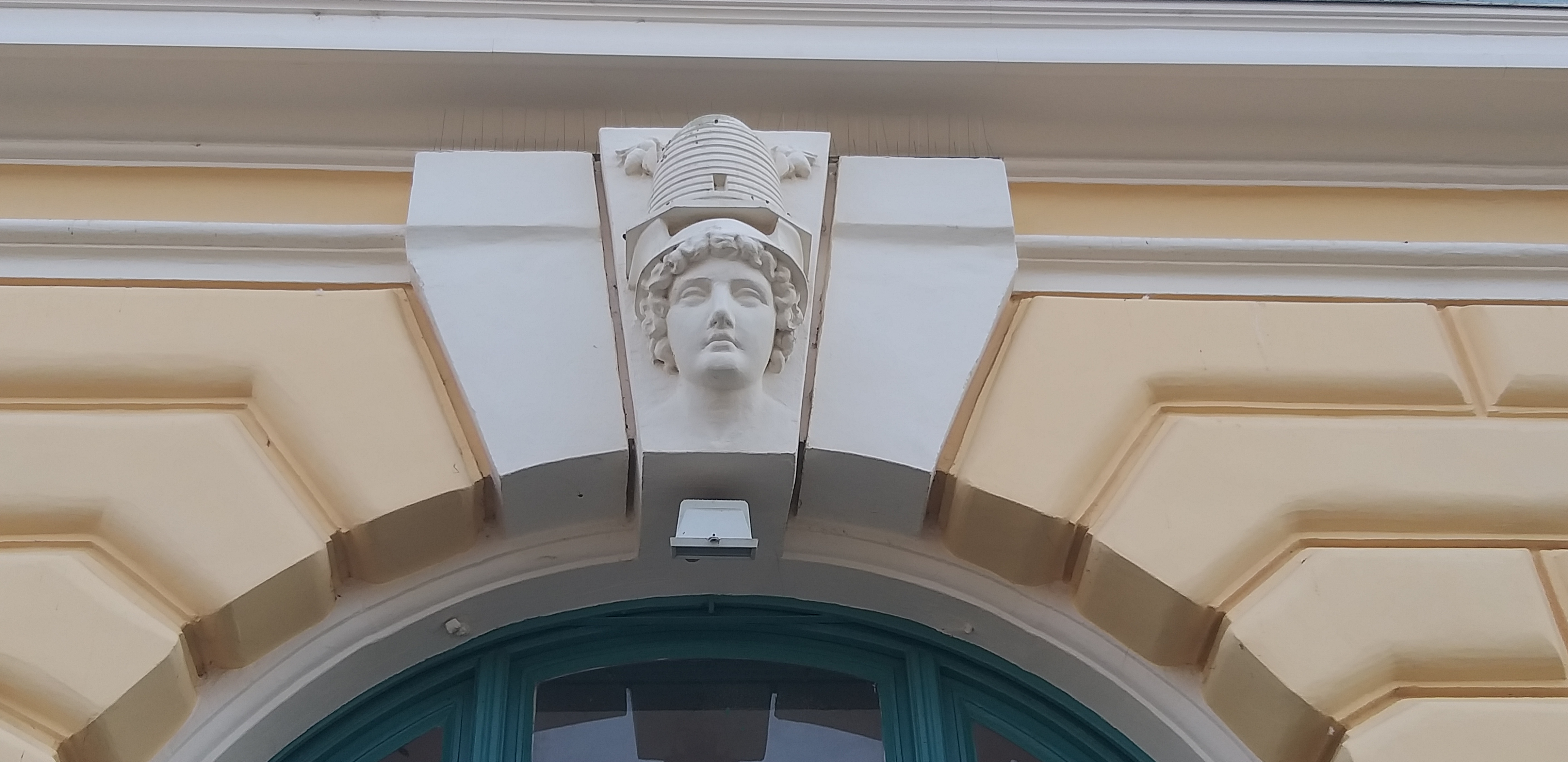 Ukras